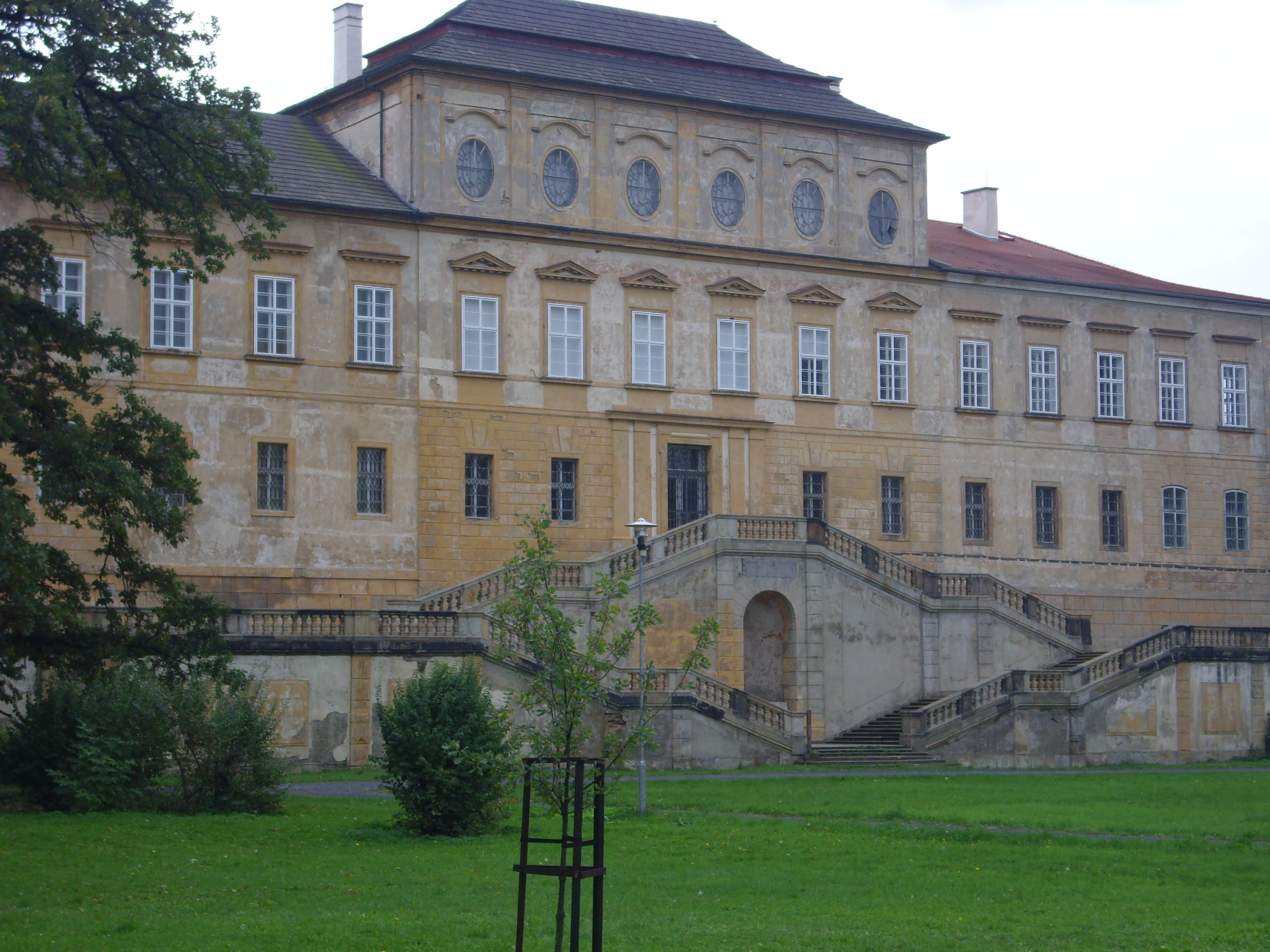 castle in Duchcov in Czech Republic